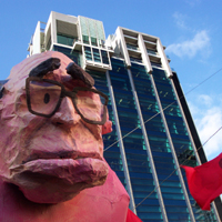 Members of Socialist Alternative helped construct this effigy of Australian Prime Minister John Howard. The building in the background is RMIT which was occupied during an education demonstration.